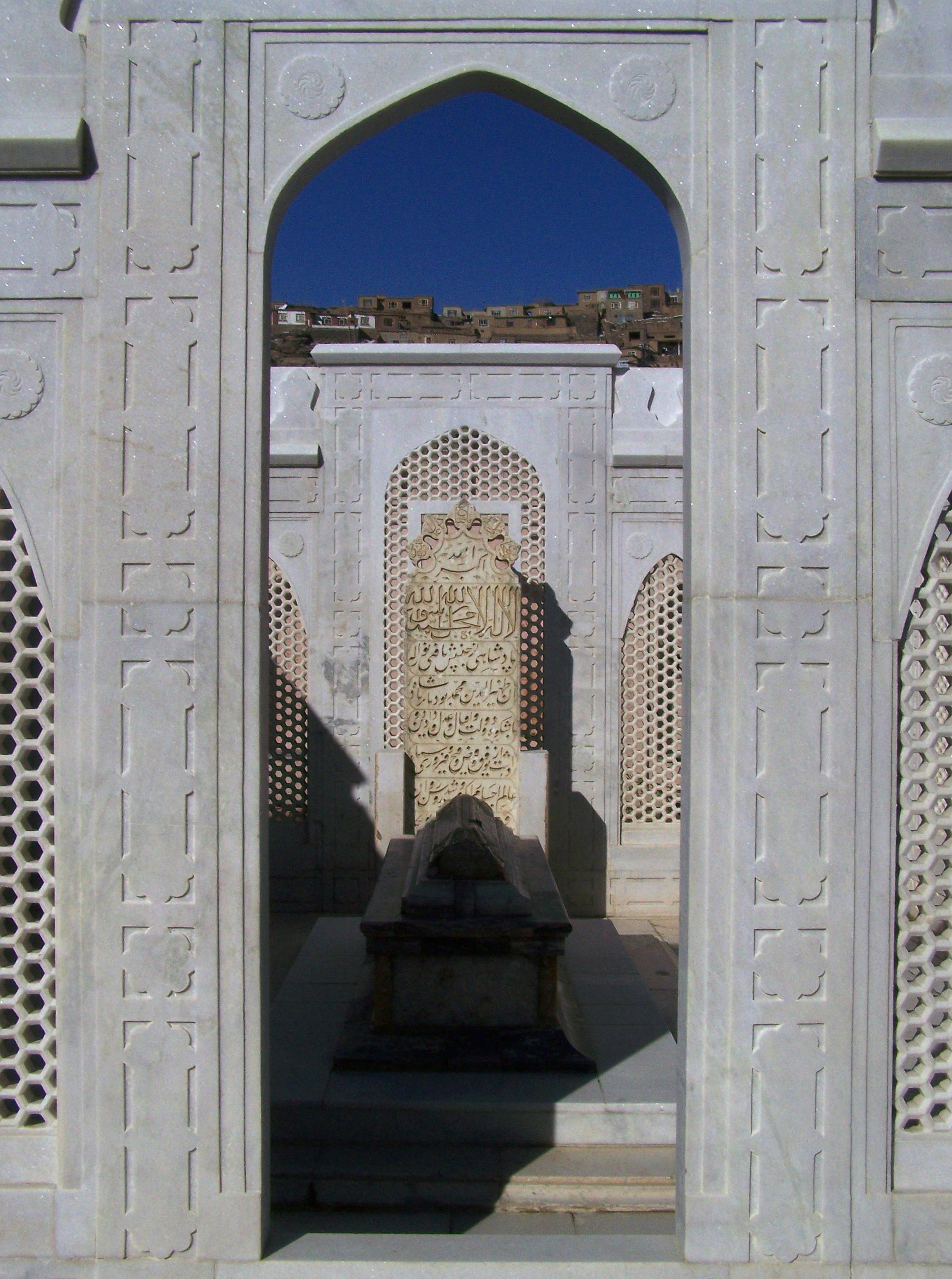 Babur's tomb in the Bāgh-e Bābur in Kabul, Afghanistan